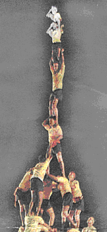 I took this photo myself at Chembur, this shows boys forming a ladder on top of the pyramid of Govinda and saluting. There is no Dahi Handi. That proves that this sport does not need a Dahi Handi to play it.